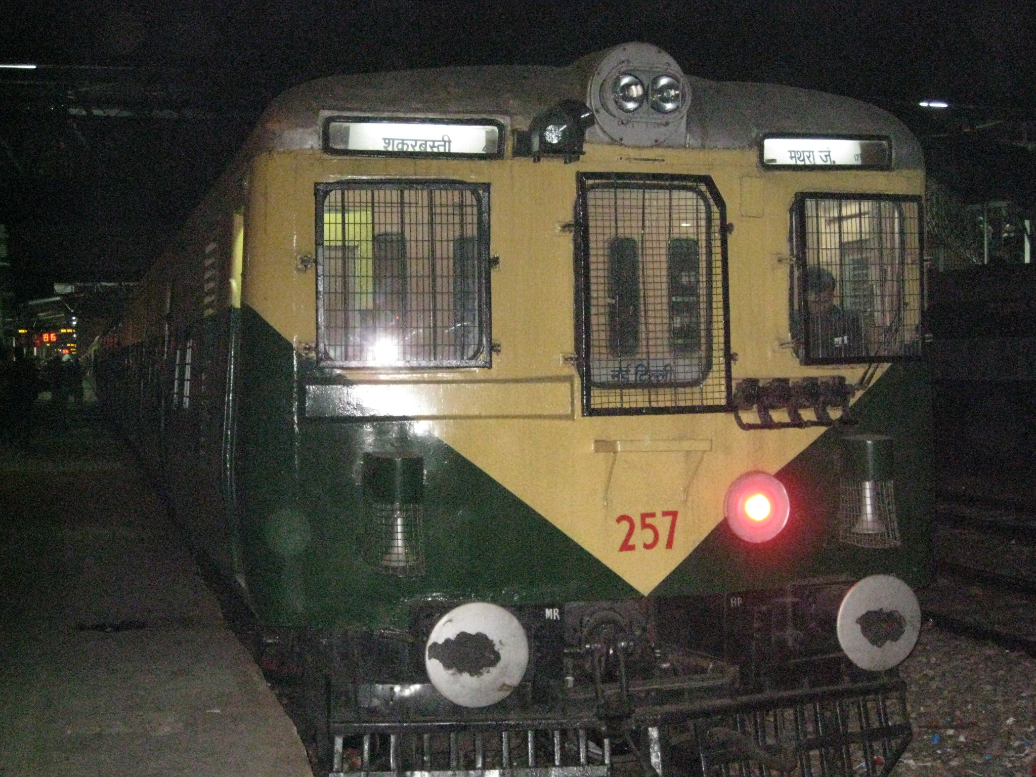 An EMU fleet of Delhi suburban railway with two smaller front windows, one bigger one and two destination indicators over them.